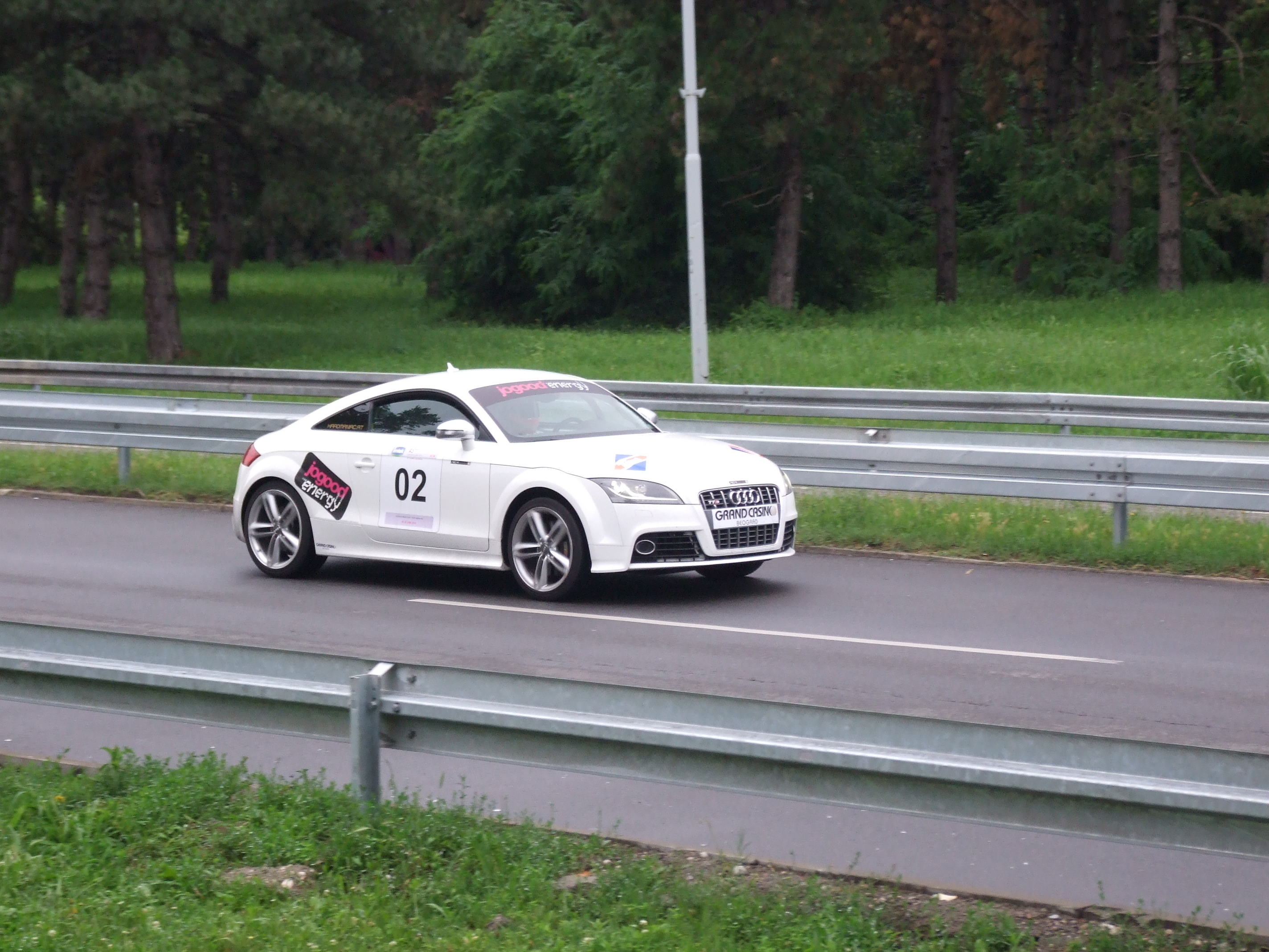 Belgrade 24h Race, 27 june 2010. Belgrade. Audi TT